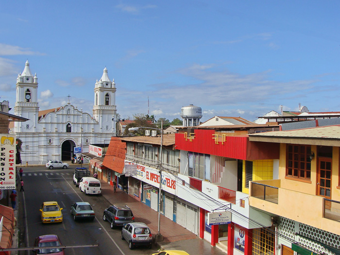 City of Chitre